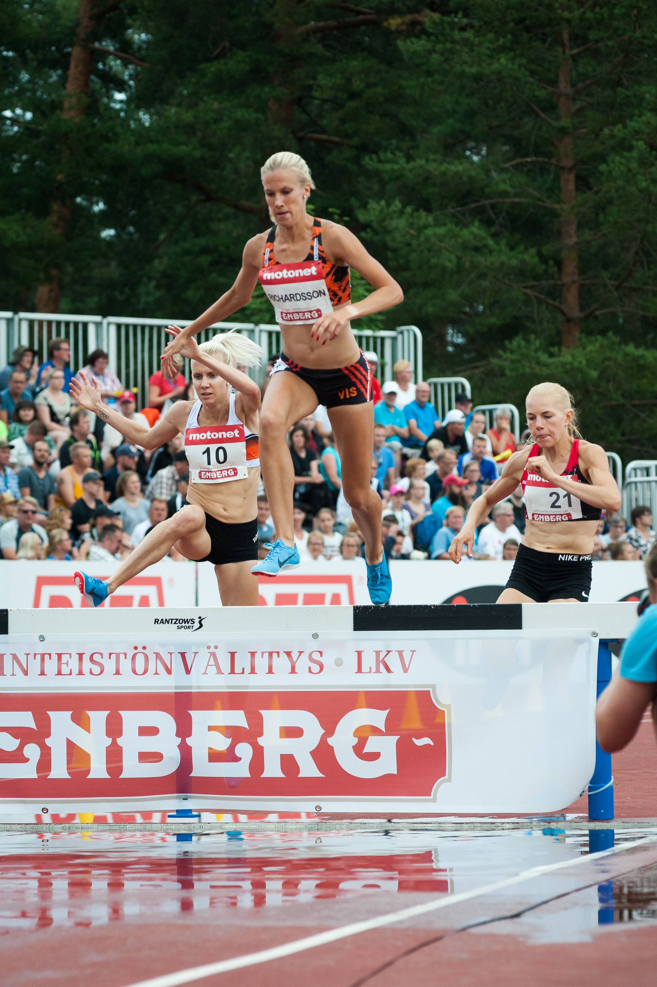 Women's 3000 m steeplechase competition at the 2018 Kalevan Kisat, the Finnish championships in athletics, in Jyväskylä, Finland. From left to right: Sandra Eriksson, Camilla Richardsson, Astrid Snäll.